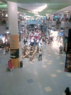 North Court near Giant